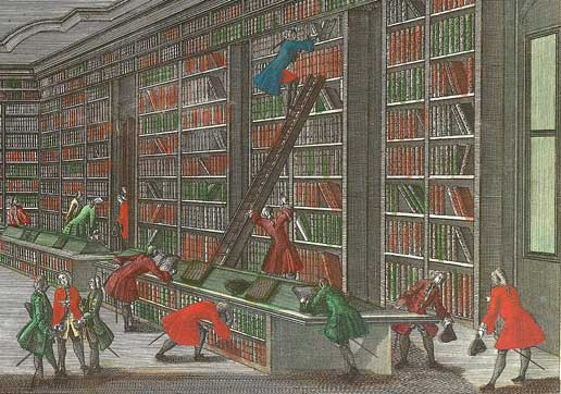 Bibliotheca Büloviana Academiae Georgiae Augustae donata (Ausschnitt)